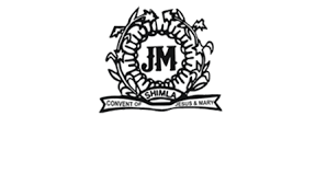 CJM Crest.png